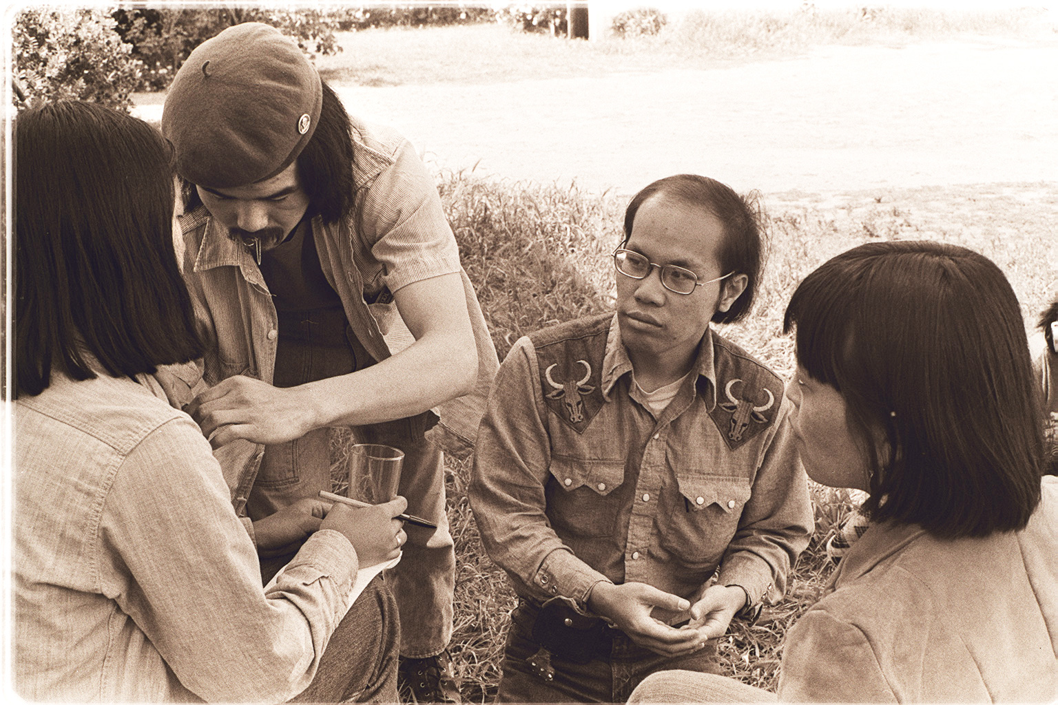 Director Curtis Choy (left) and producer/writer Chris Chow prepare to interview Wendy Yoshimura (right) for the documentary "Wendy...uh, what's her name?" Teri Lee is at left. Fresno, California 1976. Photo by Nancy Wong